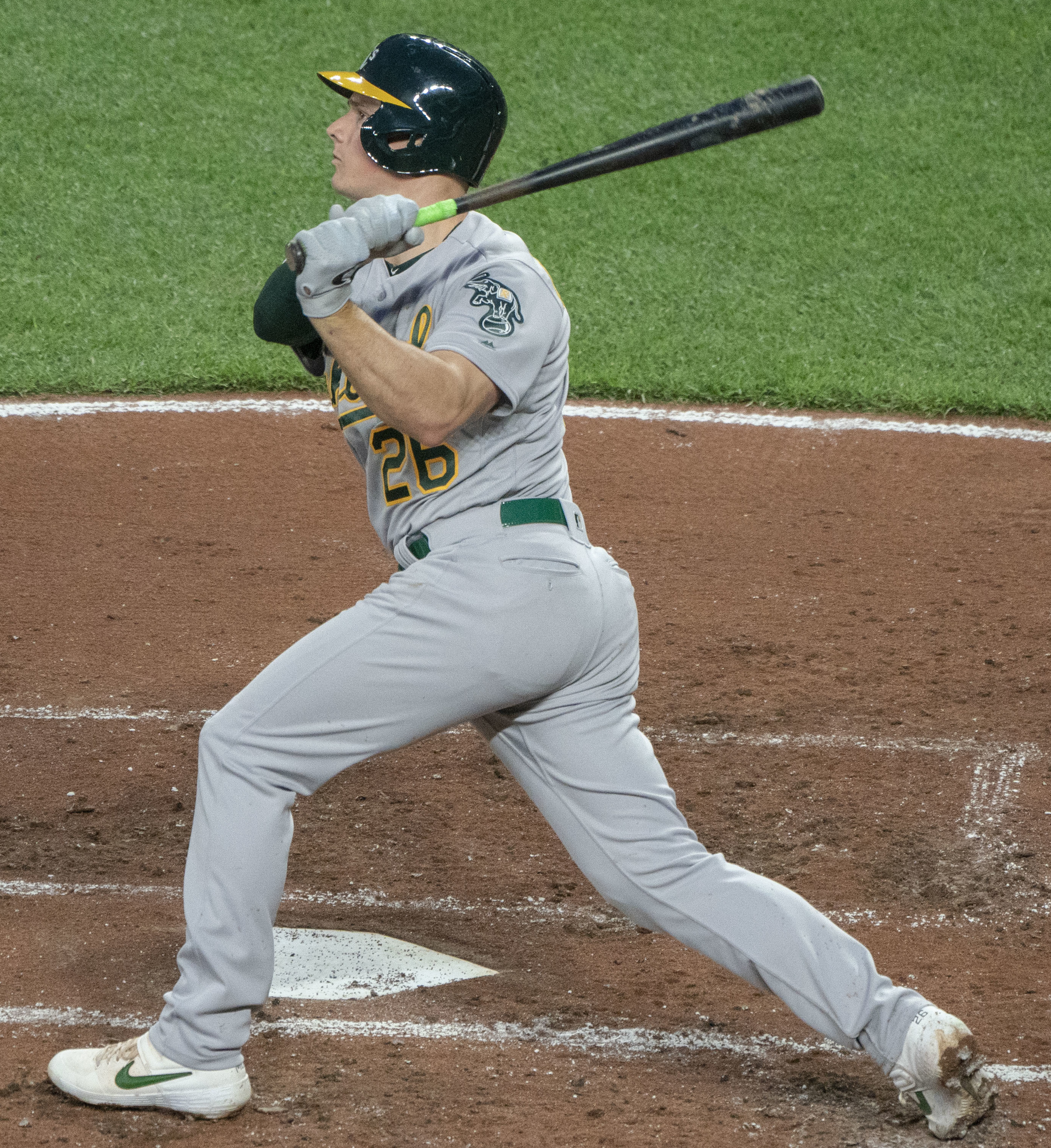 Athletics at Orioles 4/10/19